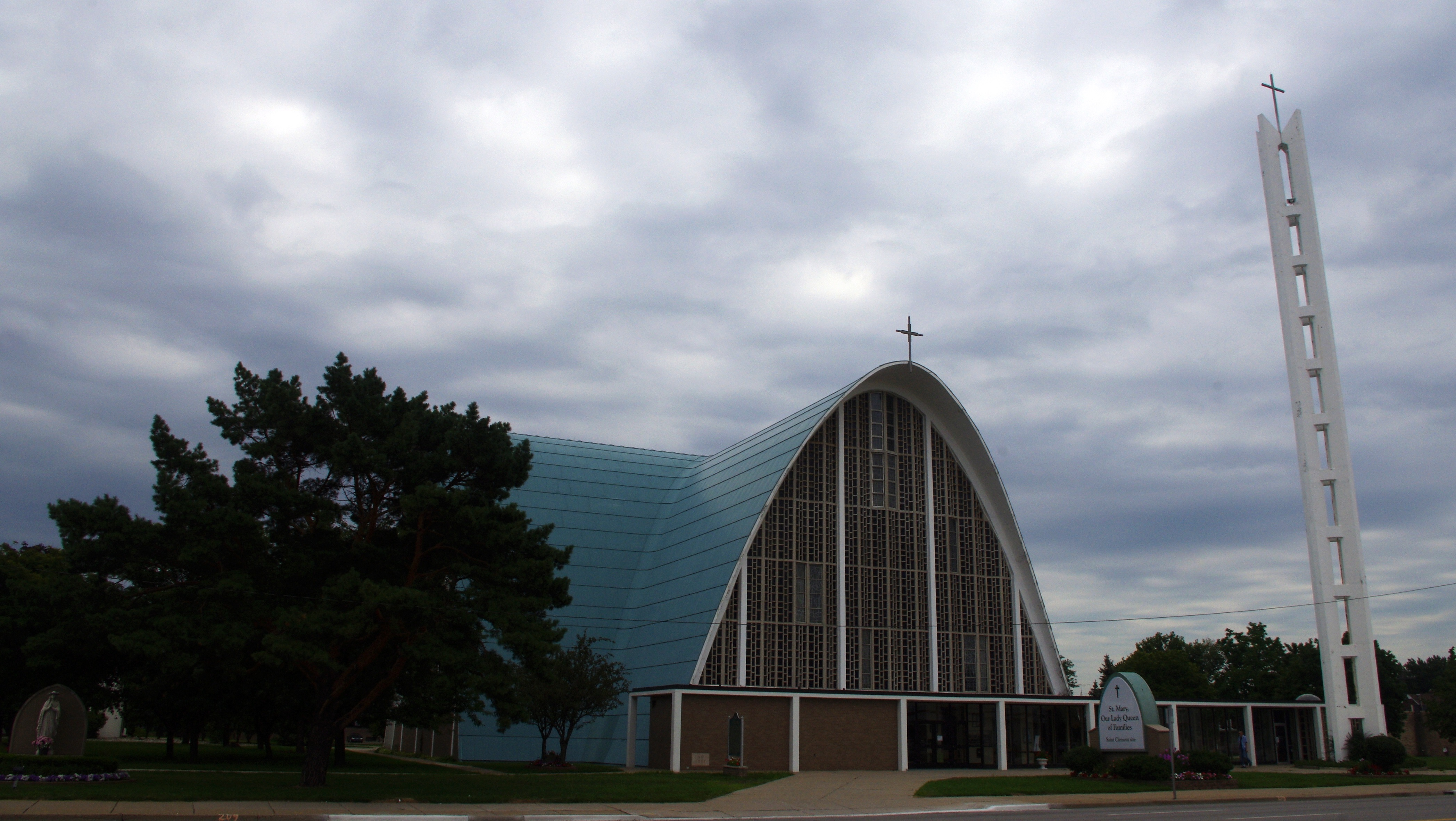 Saint Clement Church (Center Line, Michigan) - exterior, view near the corner of Van Dyke and Engleman